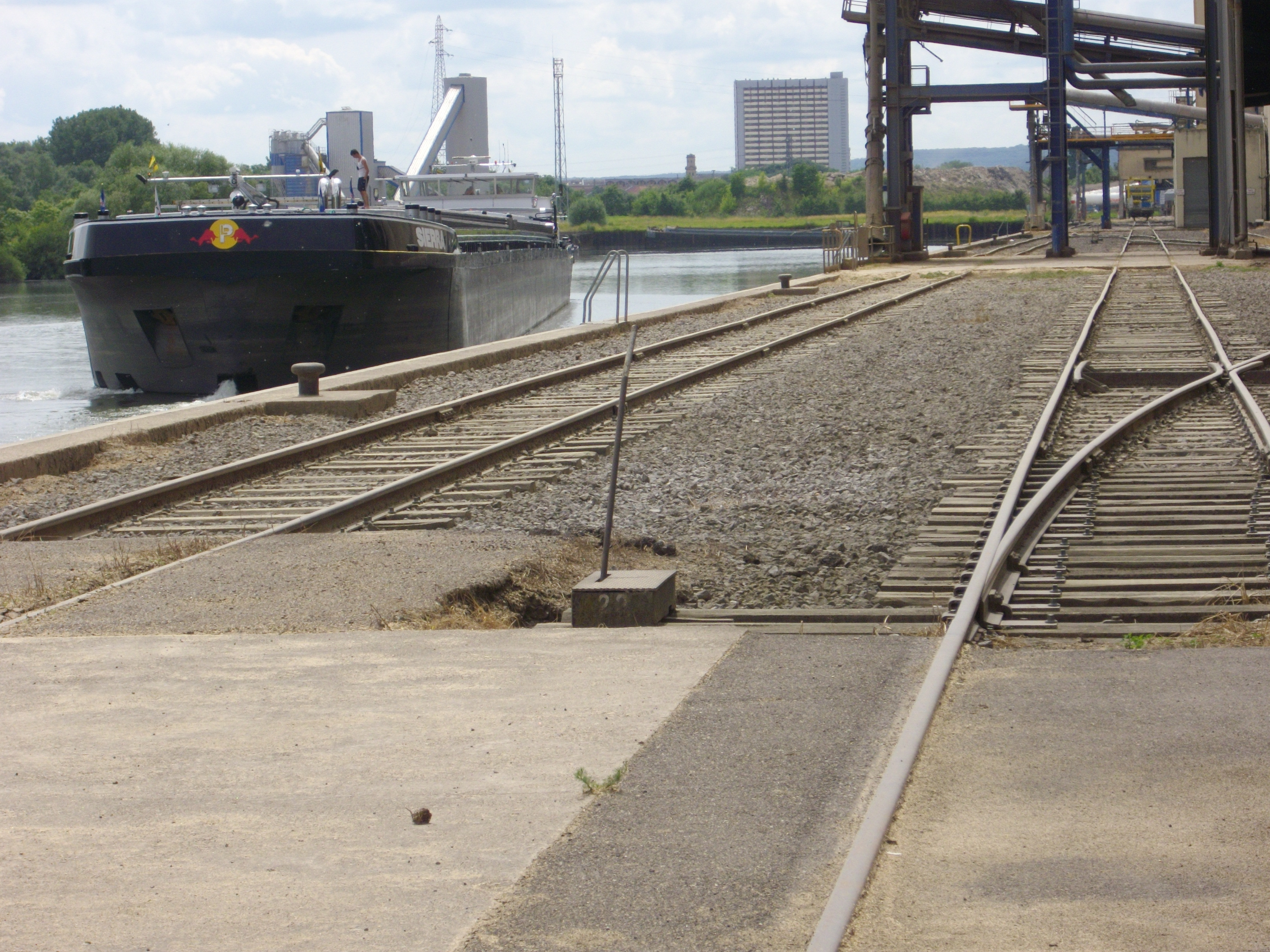 Fluvial port of Metz (Moselle, France)